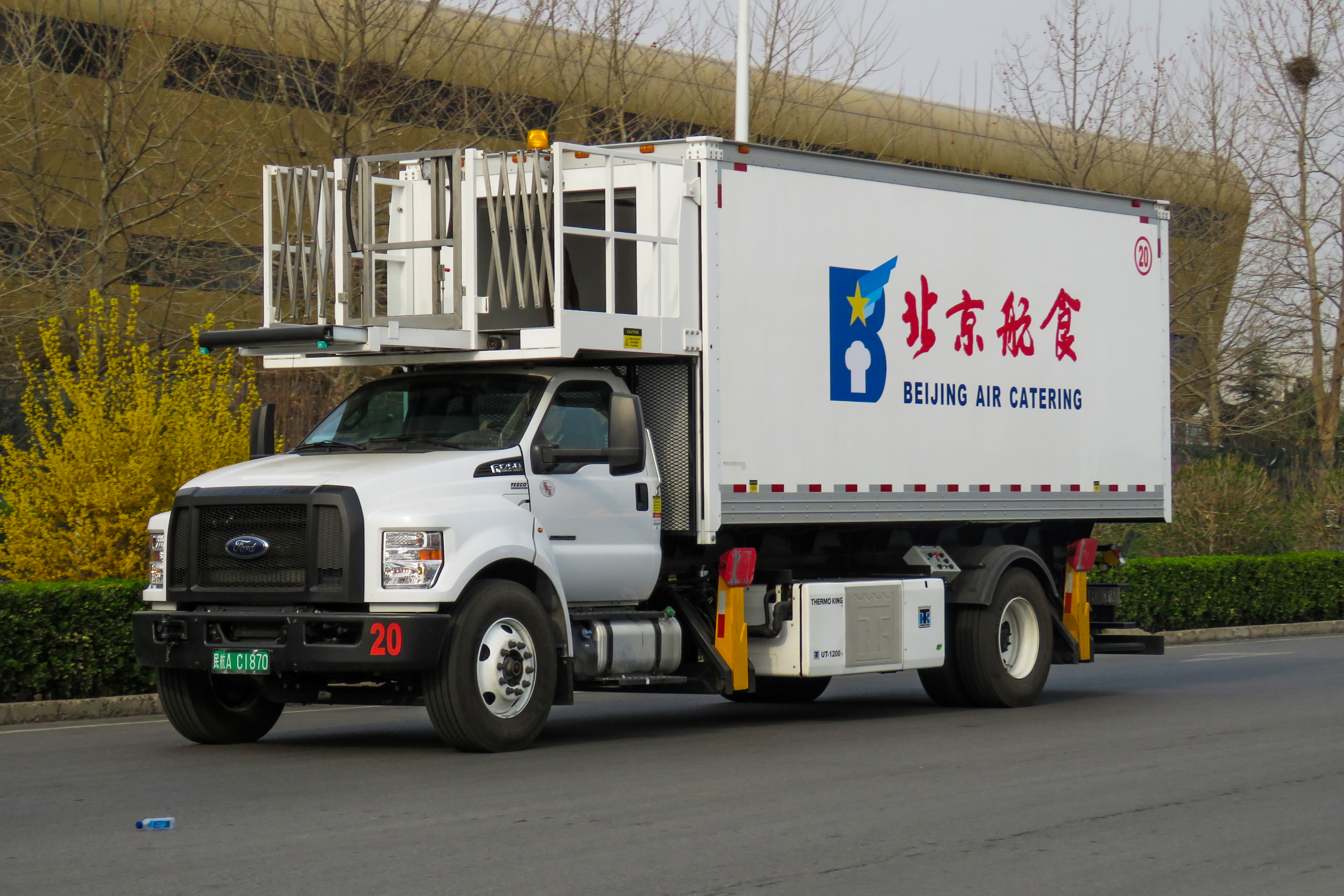 Another F-750 passing.